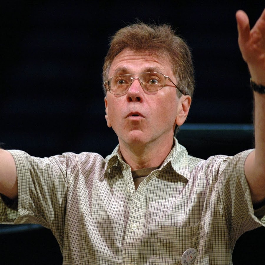 Henry Mollicone directing.